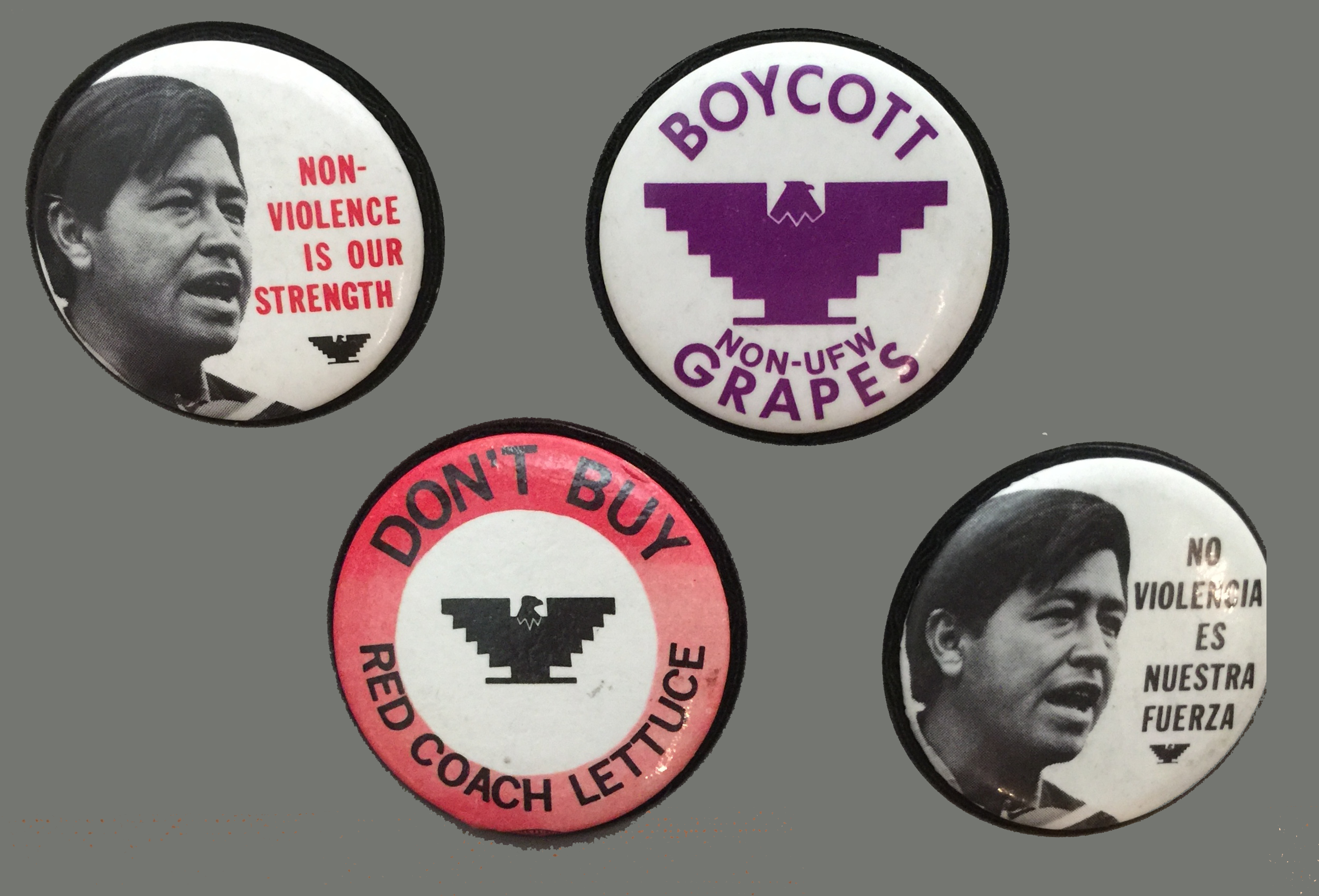 National Farm Workers Association protest buttons